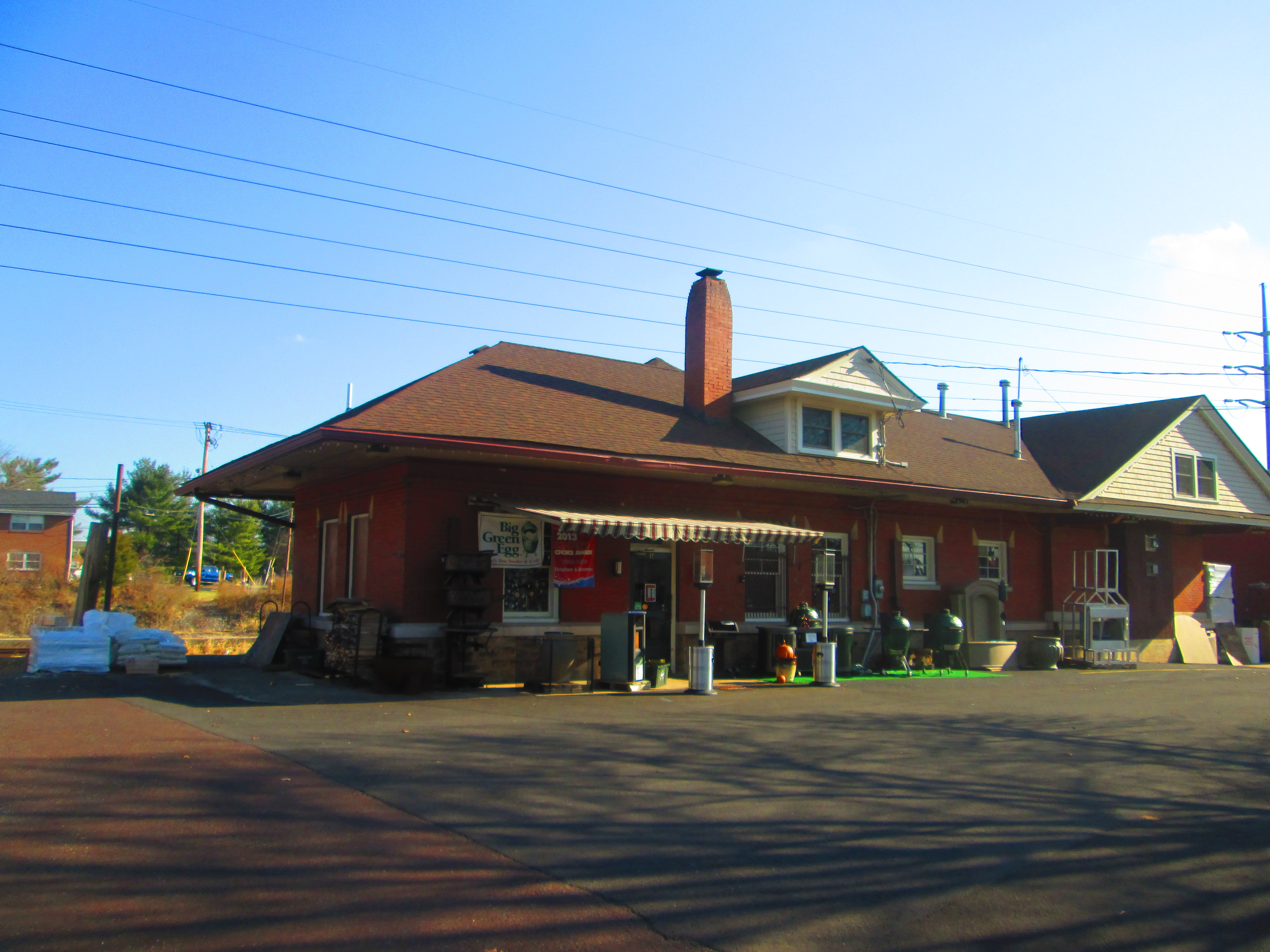 Hatfield Station Hatfield, Montgomery County, Pennsylvania. This is an old Reading station now used as a restaurant. Not a SEPTA station as far as I can tell. By the corner of Market and Broad Streets (11 N Market St Hatfield, PA 19440) 40.281839, -75.296477